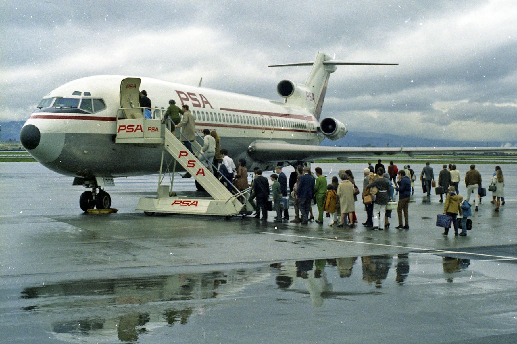 Passengers queue to board a Pacific Southwest Airlines airplane in rainy weather, 1971 Other information Photo by George Garrigues.